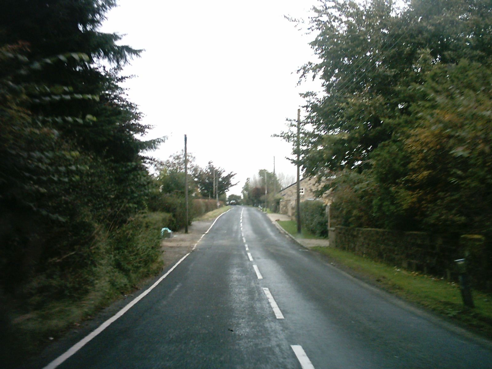 Wike, Leeds, UK